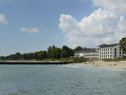 Ystad Saltsjöbad sedd från stranden